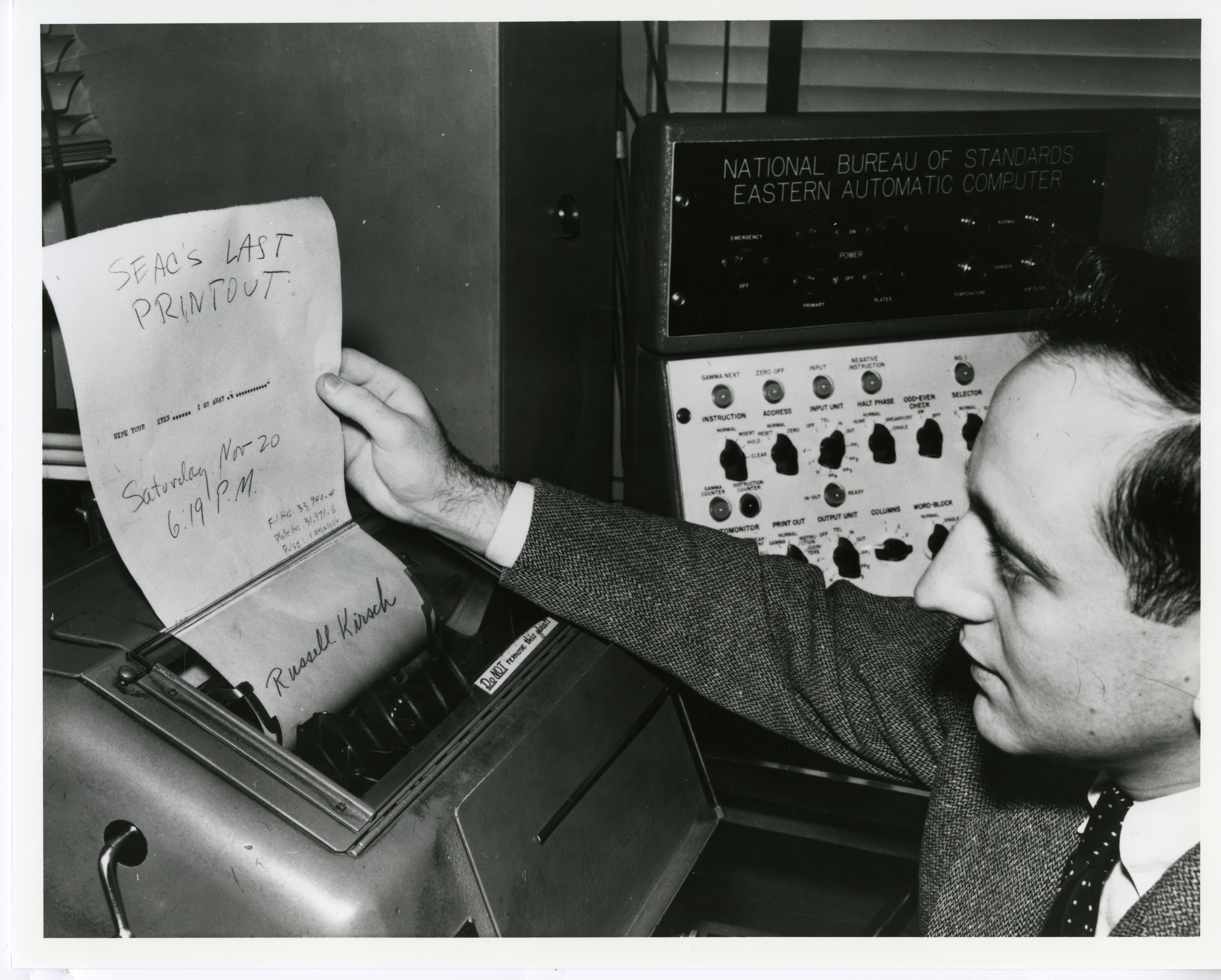 SEAC's "last printout," 1954. However SEAC was reassembled successfully and ran for another ten years until its dismantling in 1964. Hand written inscriptions read: SEAC’s LAST PRINTOUT Saturday November 20 6:19 PM Fil Hrs: 33,940.6 Plate Hrs: 31,971.6 Pulse: 1 megacycle Russell Kirsch Printout reads: WIPE YOUR EYES…… I GO AWAY .%………..